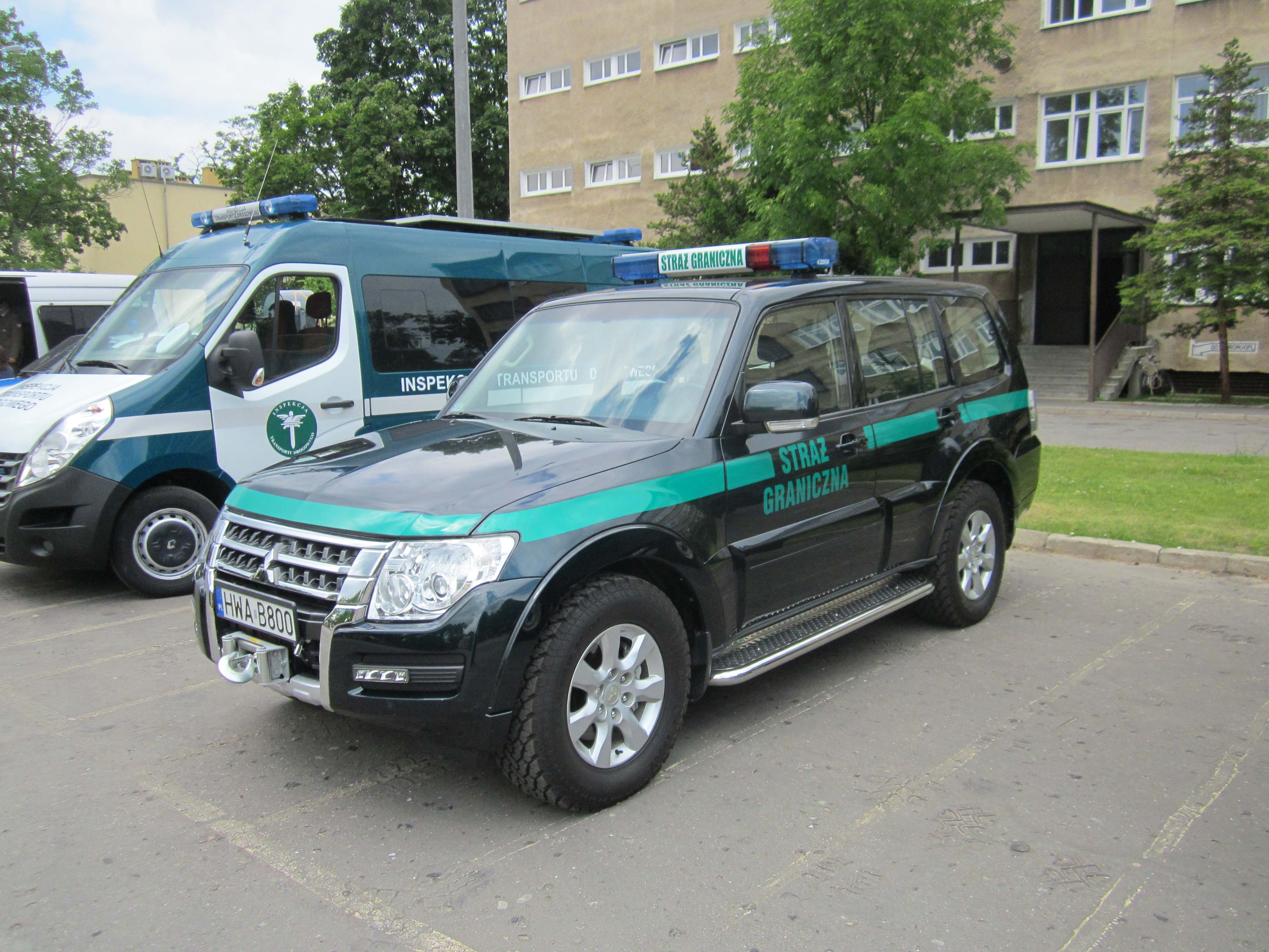 Border Guard patrol vehicle in Białystok